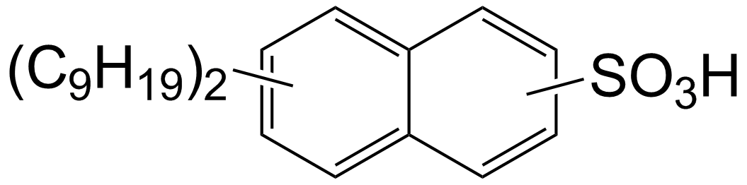 chemical structure of dinonylnaphthylsulfonic acid (DINNSA)